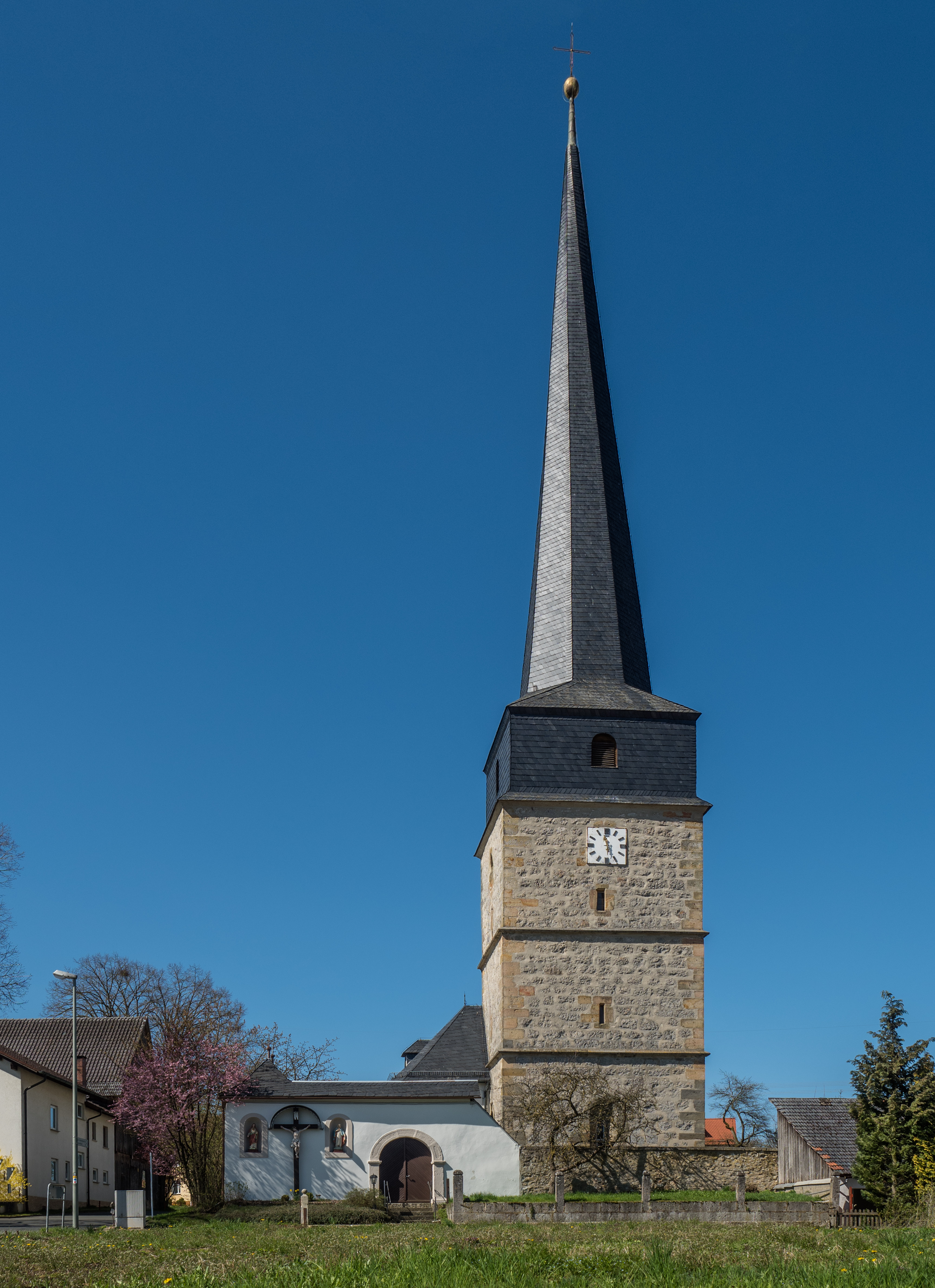 Catholic church of the Assumption in Rothmannsthal